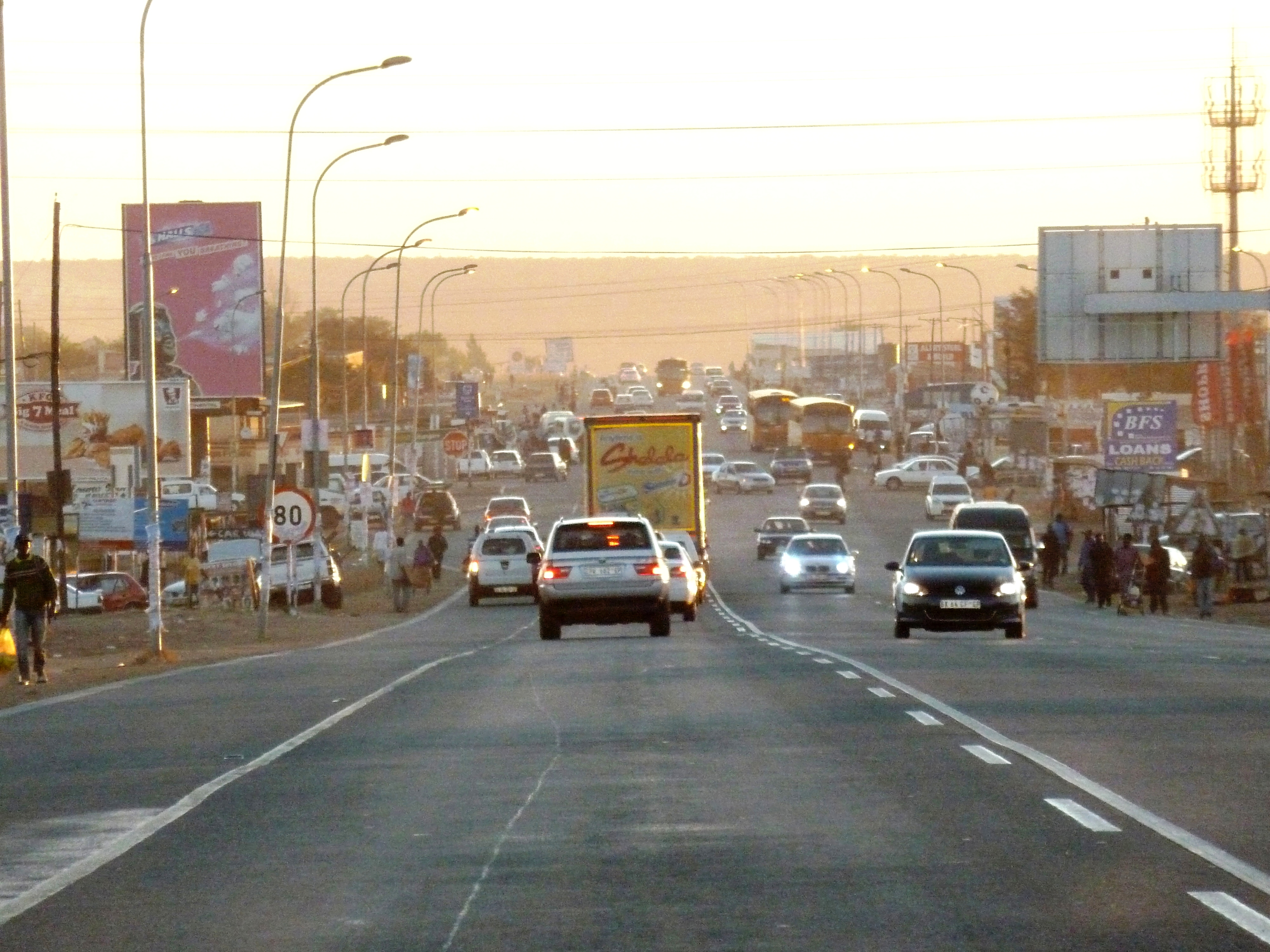 KwaMhlanga Crossroads, at the R573-R568 intersection, Mpumalanga